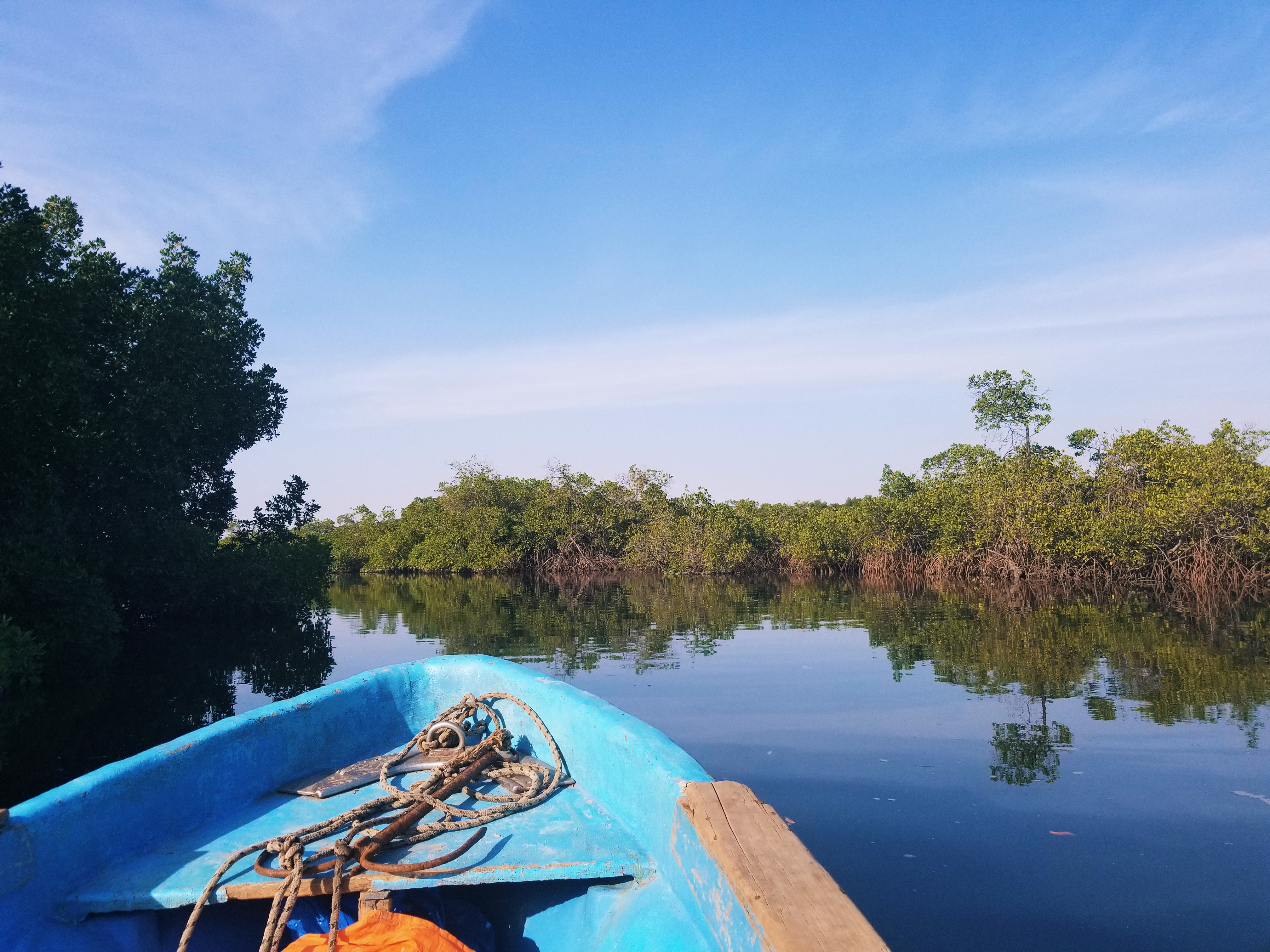 A lot of places in Senegal may be reached only by boat, so when you get there, you can be 100%-sure you are isolated This is an image with the theme "Africa on the Move or Transport" from: Senegal